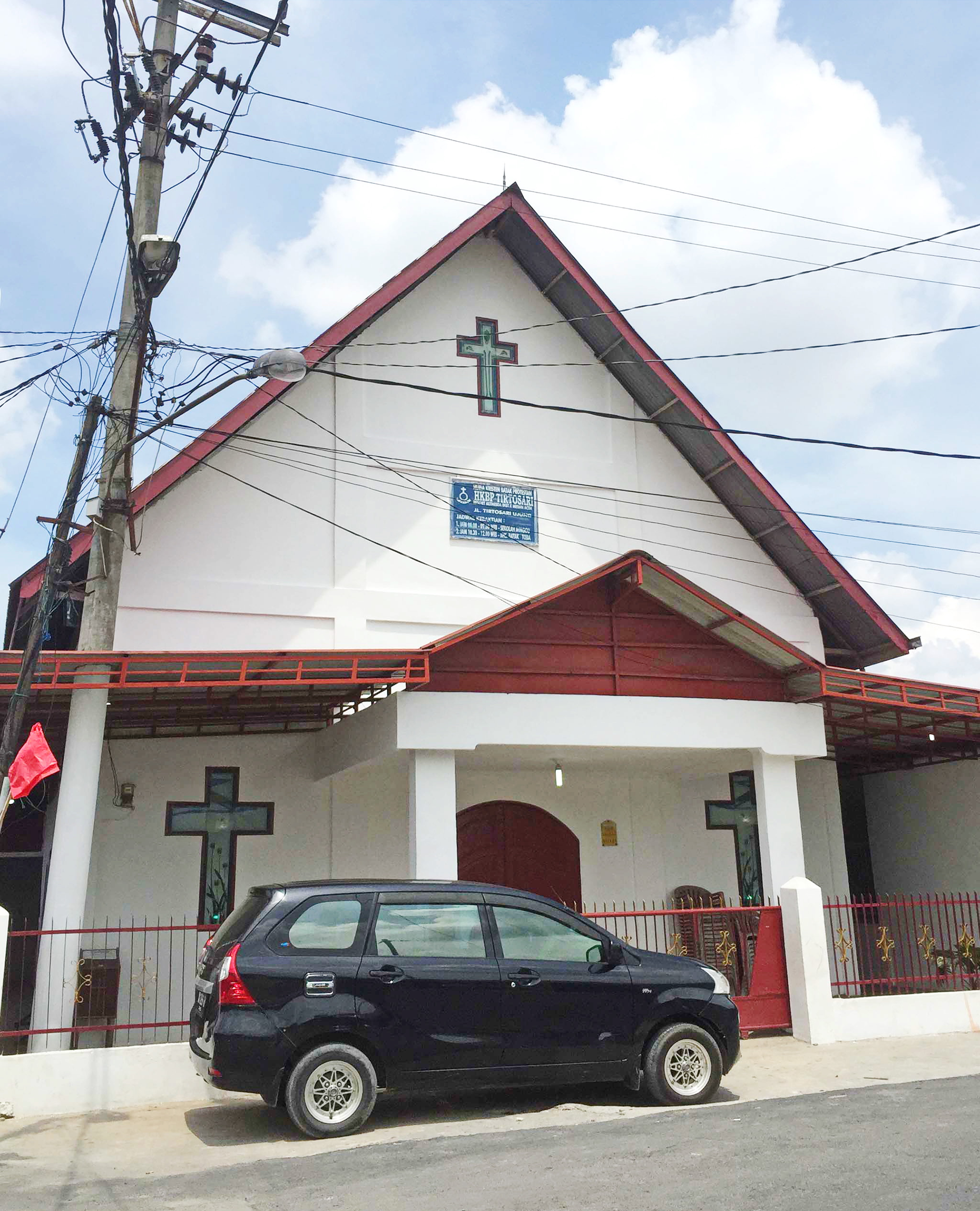 HKBP Tirtosari, Res. Bethesda Church in Bantan, Medan Tembung, Medan